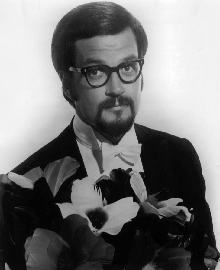 Photo of magician Harry Blackstone, Jr.